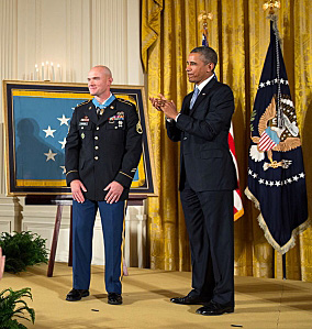 Ty Carter during ceremony in which U.S. President Barack Obama awards Carter the Medal of Honor